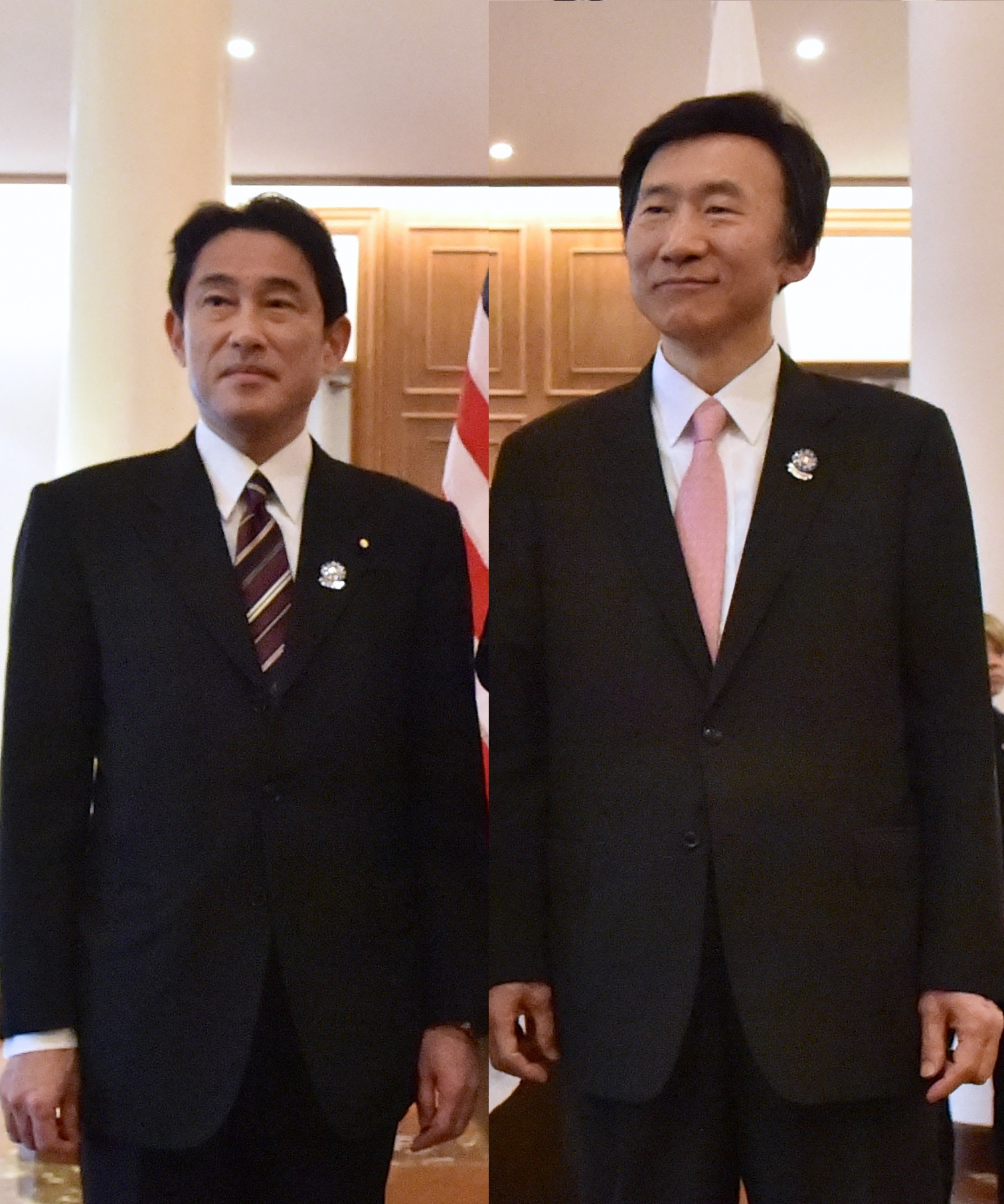 Foreign Ministers Fumio Kishida of Japan (left) and Byung-se Yun of the Republic of Korea (right).